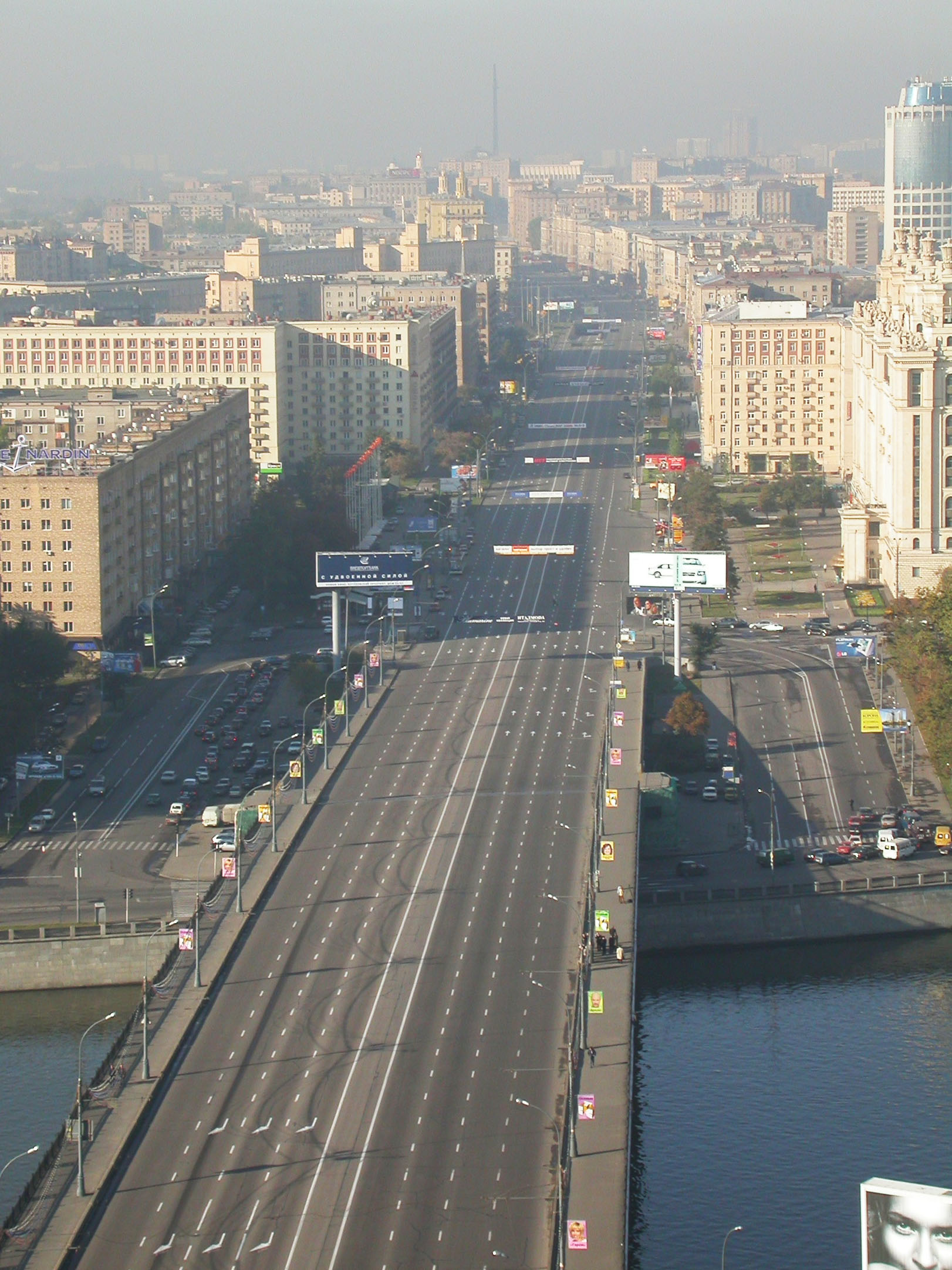 Kutuzovsky Prospekt in the morning in Moscow, Russia.